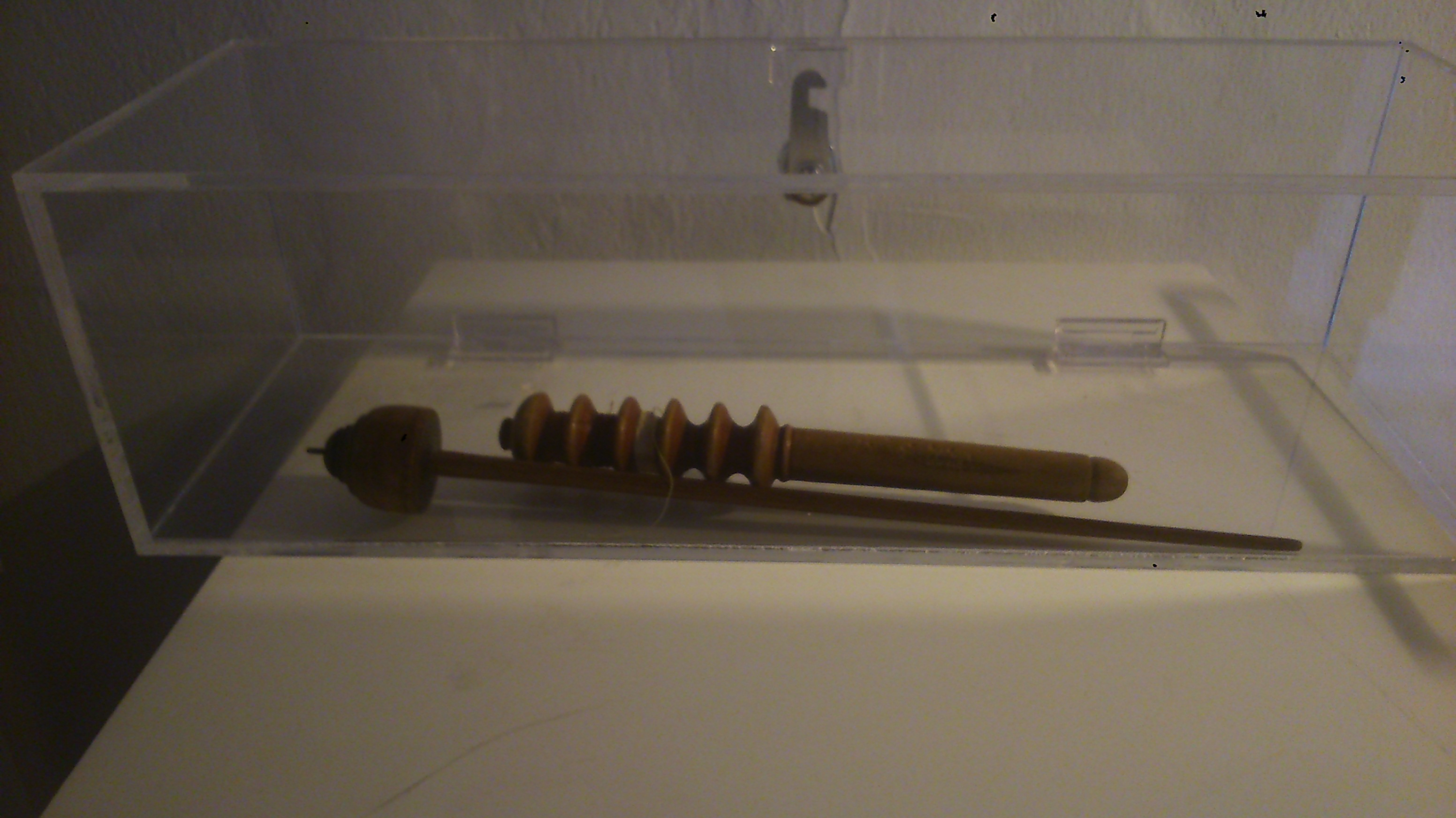 Tools used in kurar embroidery. This is traditional Bahrain embroidery, woven of gold, silwer and silk threads. Exhibit in Jasheer House, Muharraq, Bahrain.